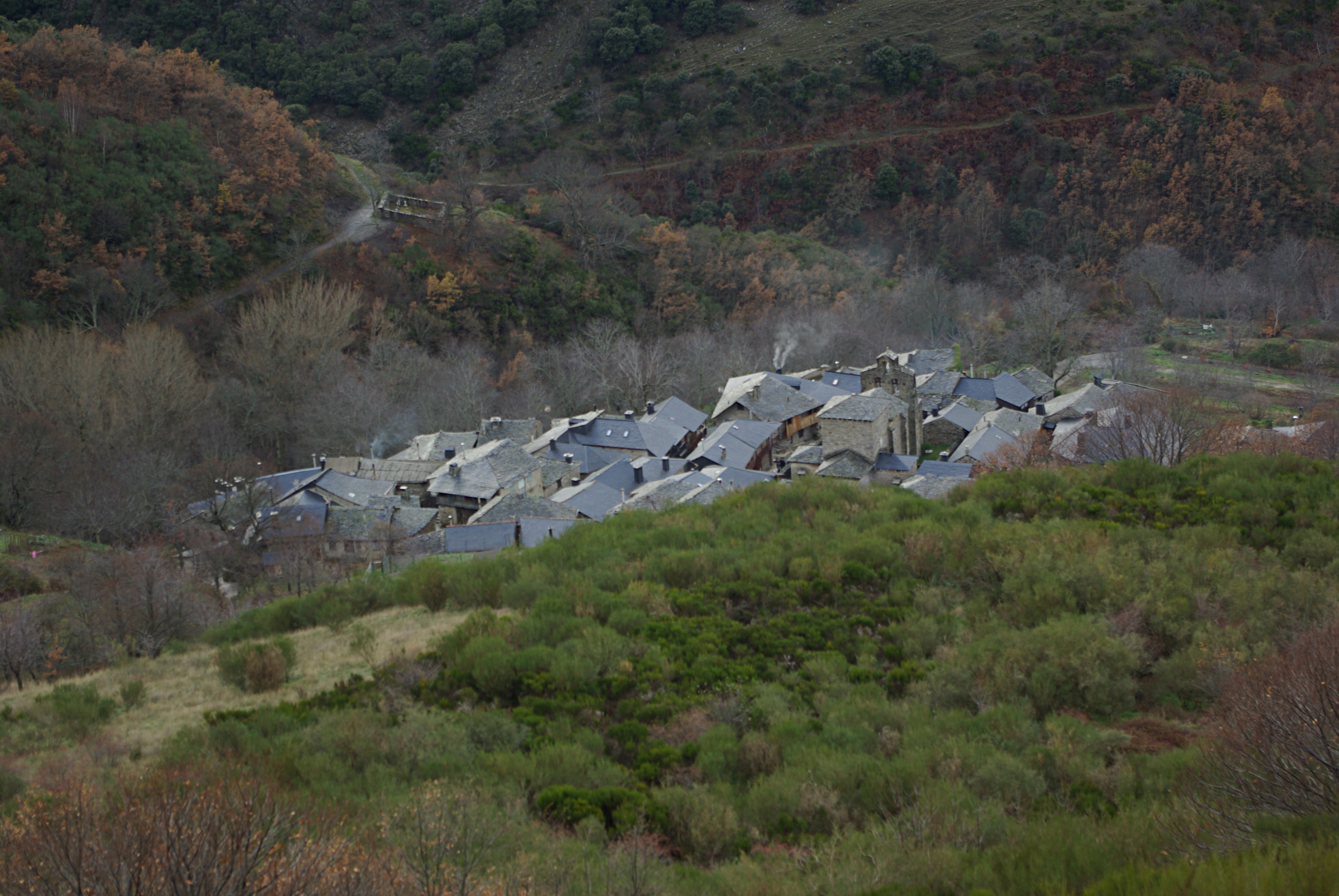 Peñalba de Santiago (Ponferrada, León, Spain)